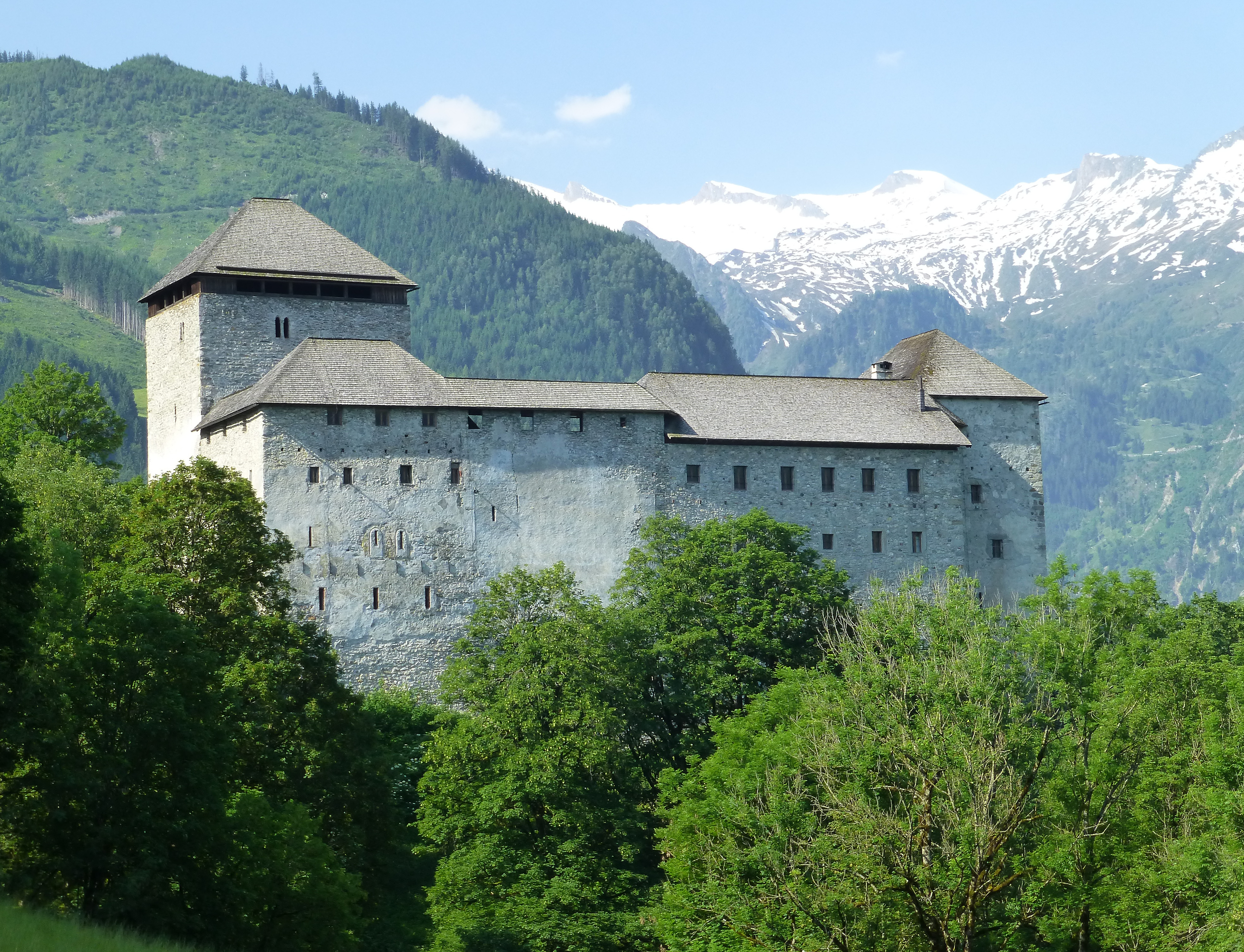 Castle Kaprun in Kaprun, Salzburg (state), Austria Dieses Bild wurde anlässlich des österreichischen Tags des Denkmals 2014 in Salzburg eingereicht.